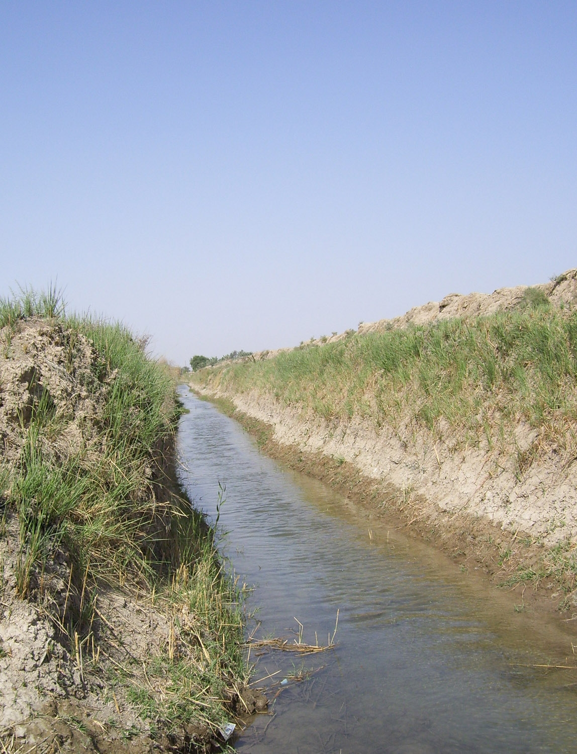 Water flows through an irrigation canal near Fira Shia, Iraq that once had barely enough water for farmers to use for subsistence farming.